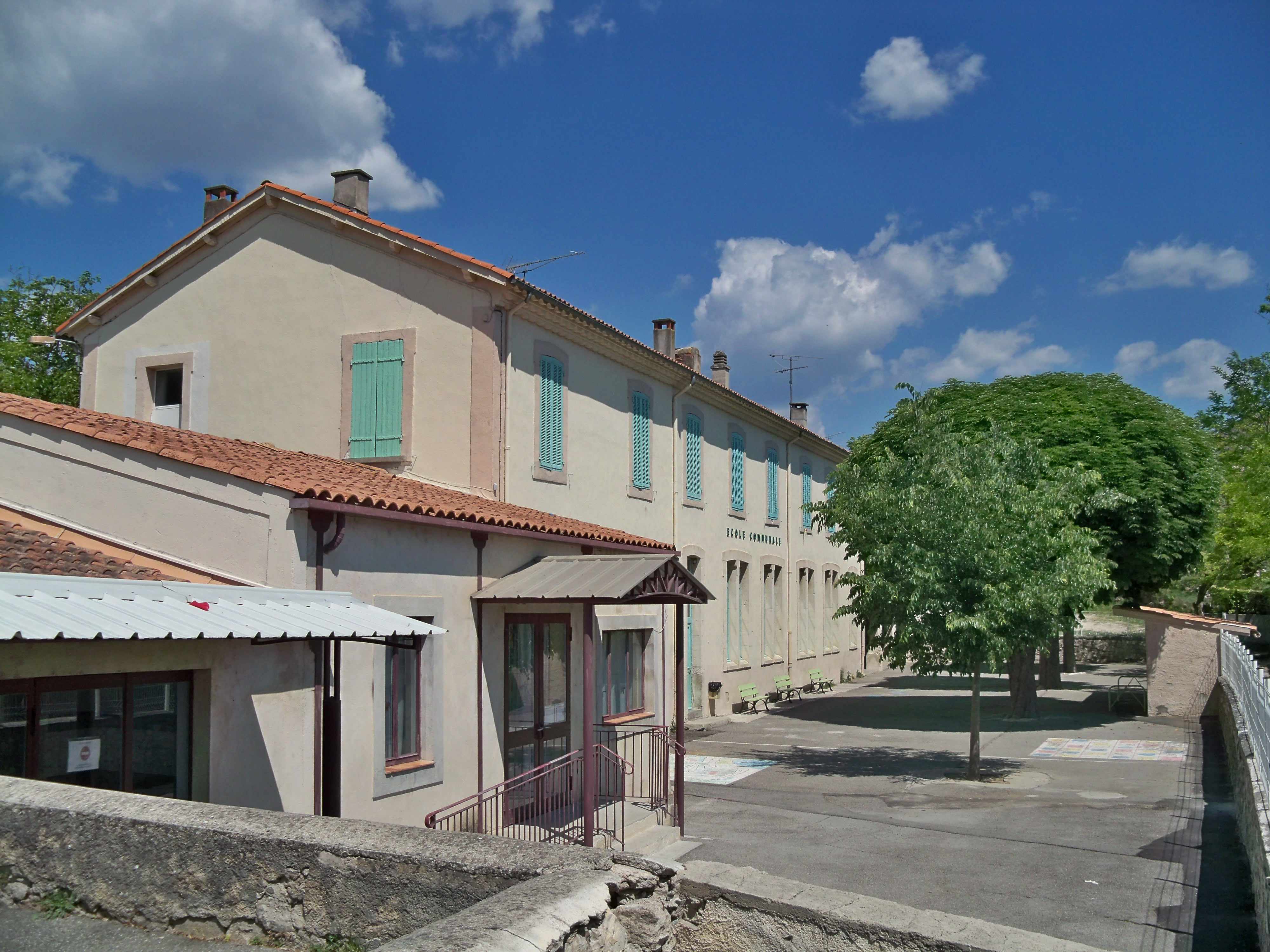 Saint Maime elemantary school, Alpes de Haute Provence, France